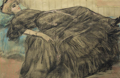 Idle moments. Signed Leo Gestel. Pencil, charcoal and pastel on paper, 30 x 46 cm.